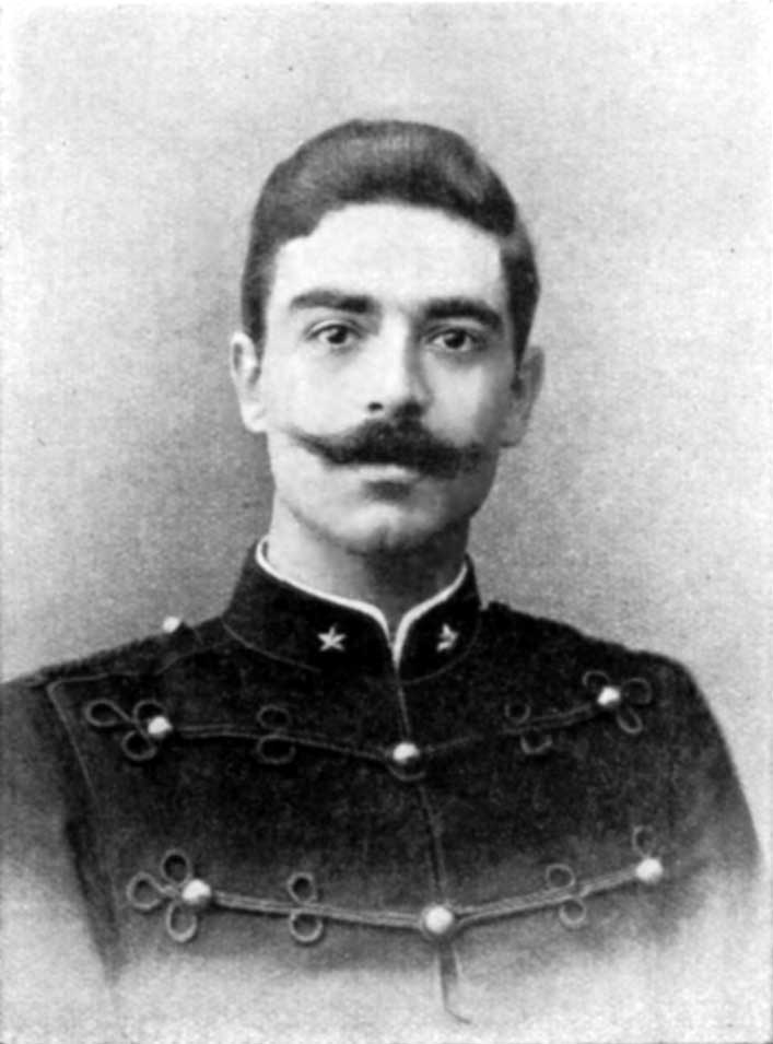 Louis van Vuuren (1873-1951) Dutch geographer